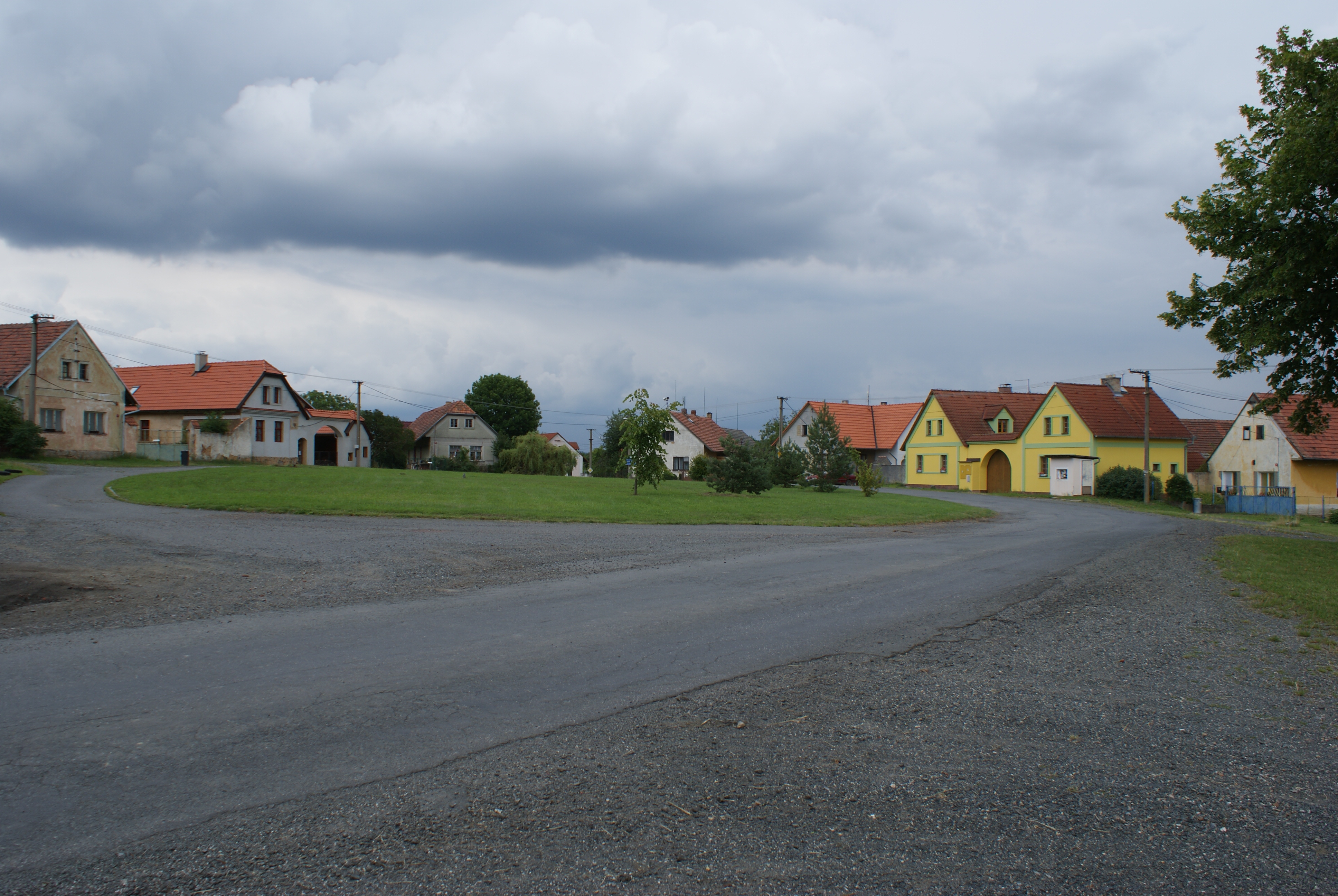 Struhaře, a village in Plzeň-jih district, Czech Republic. The village common. Česky: Struhaře, okres Plzeň jih, náves